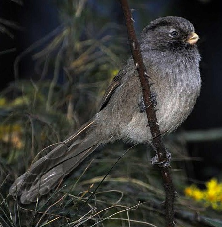 Photo taken in Thimphu, Bhutan